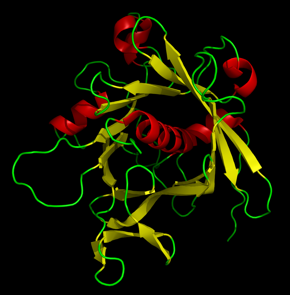 Mouse brain tubby protein, which has a characteristic beta-barrel fold with a central alpha helix.